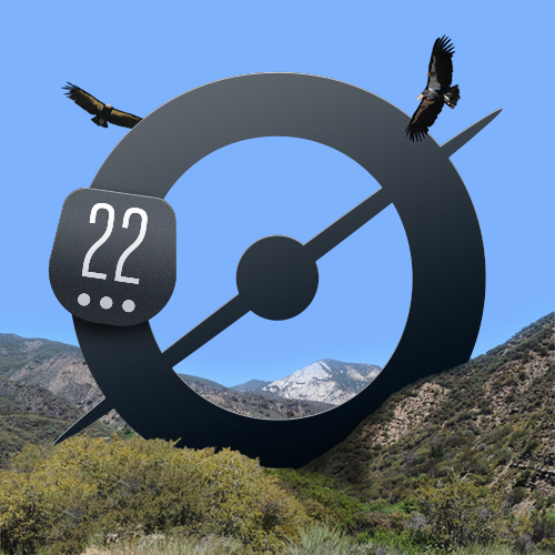 Official Zooniverse avatar for Condor Watch